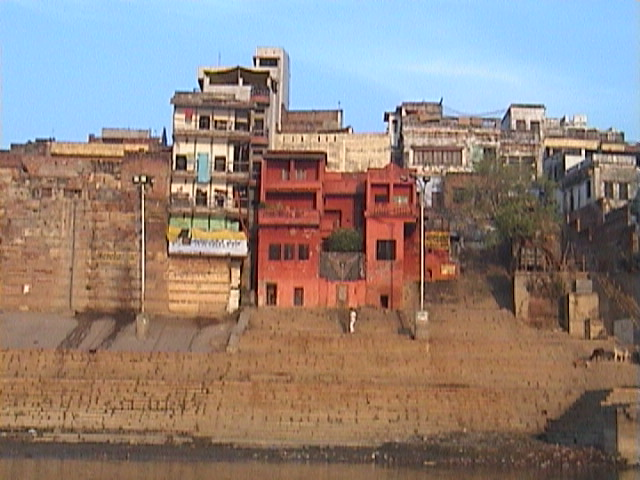 See Varanasi Development Cooperation Handbook/Stories/Responsible Development - Varanasi The Varanasi Heritage Dossier Kautilya Society Mediendatei abspielen Vrinda Dar - How we got involved in heritage protection of Varanasi